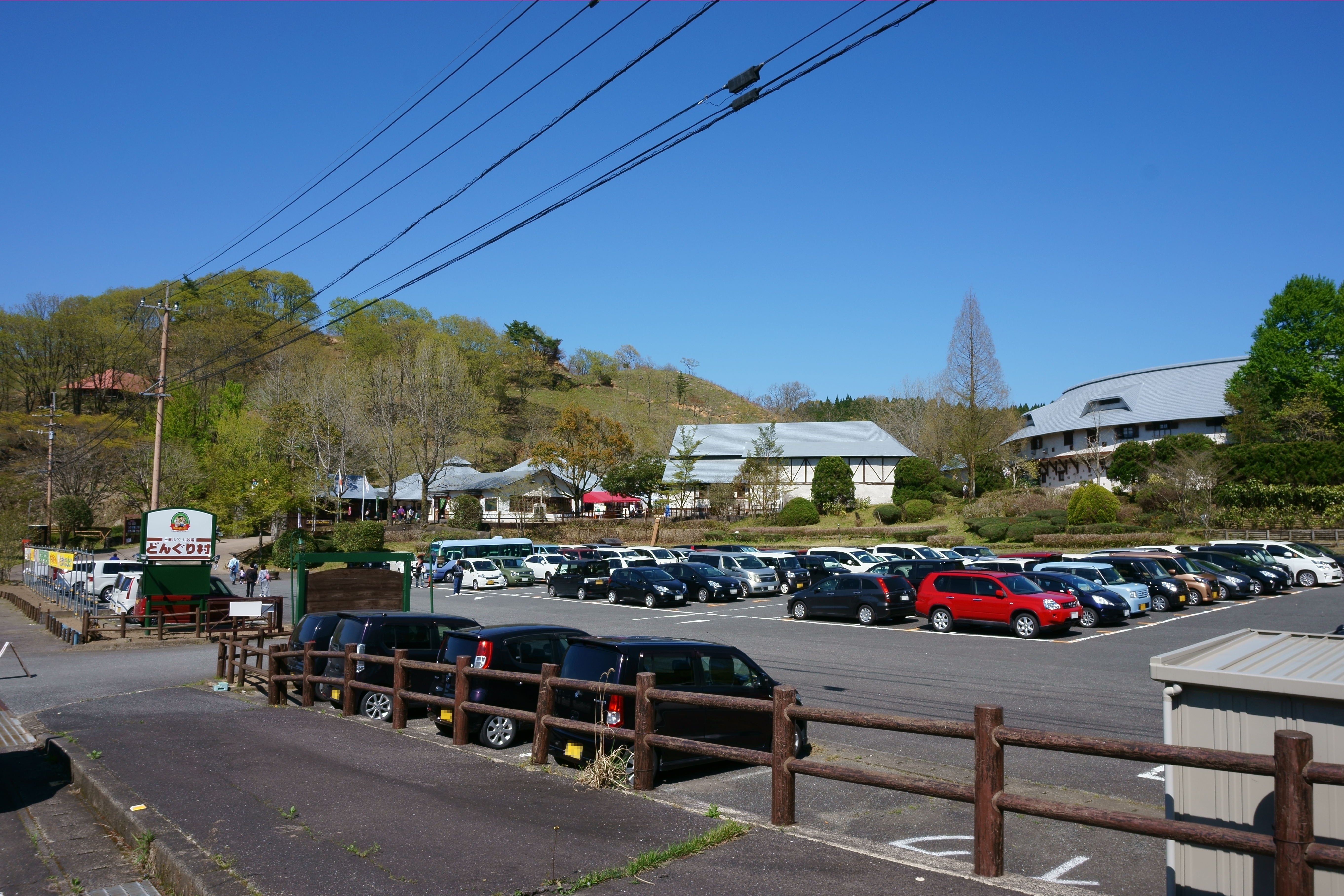 Mitsuse Donguri Village(Donguri-Mura), a dude ranch in Mitsuse, Saga city, Saga prefecture.